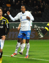 Isaac Kiese Thelin